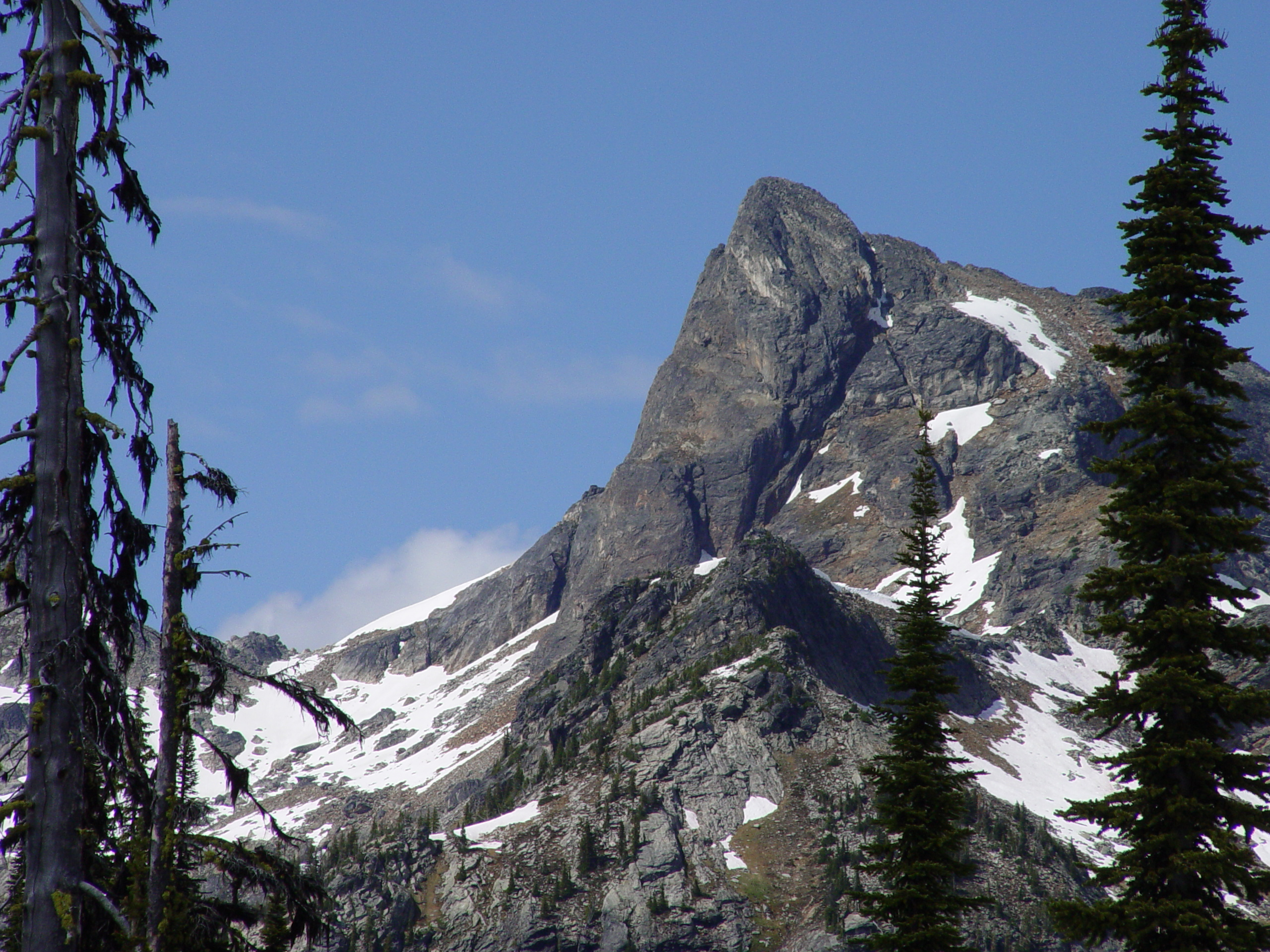 Lucifer Peak in Devils Range subset of Valhalla Ranges